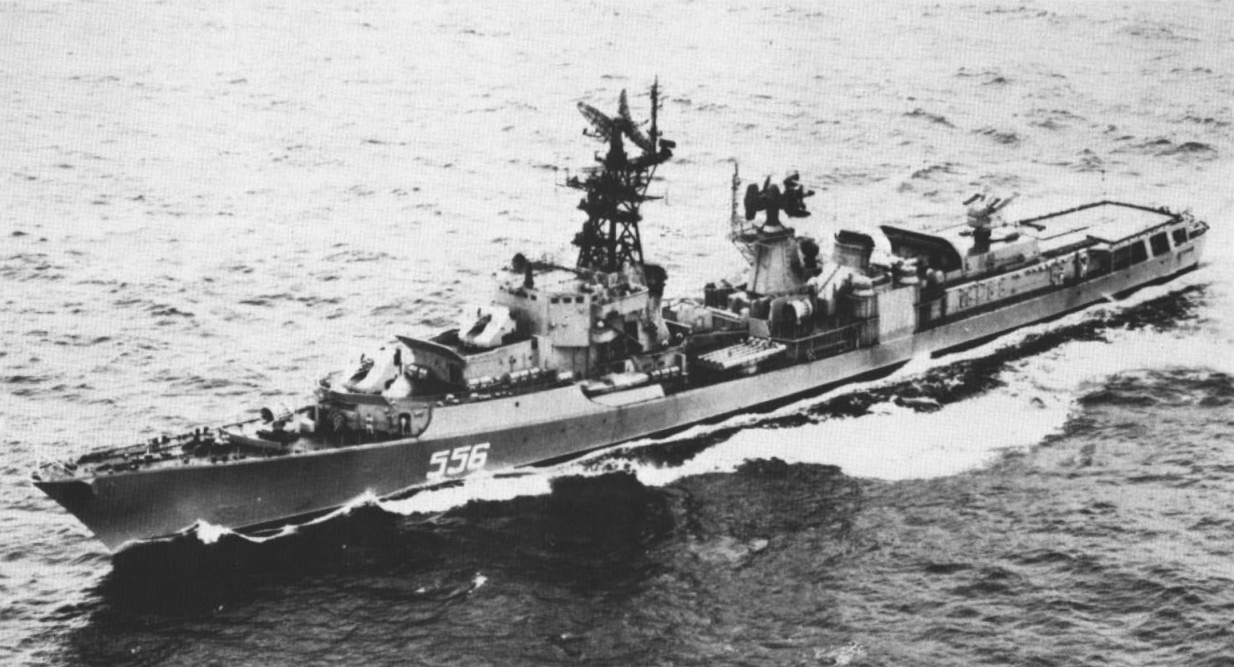 The Soviet Kanin-class guided missile destroyer Gordyy at sea, following her 1973-1975 modernization.